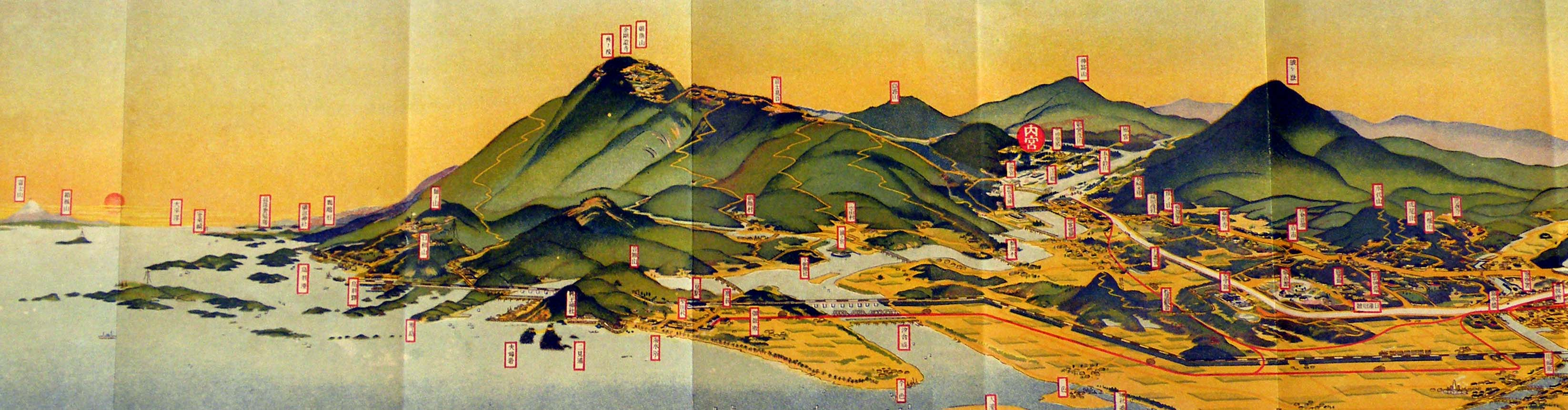 This is the Ise Meisho Zue painted by Hatsusaburō Yoshida in 1919.